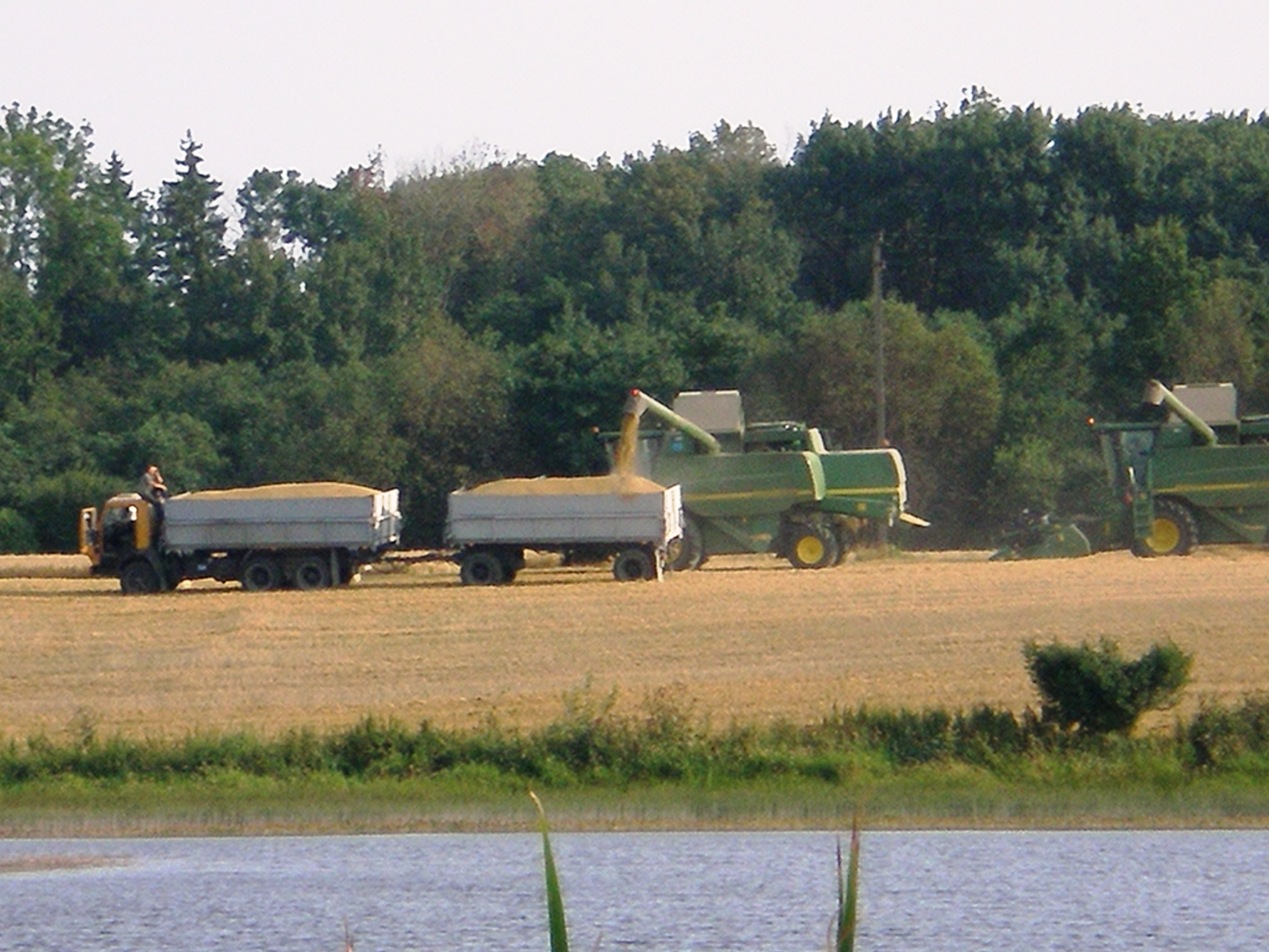 Harvesting in Lithuania